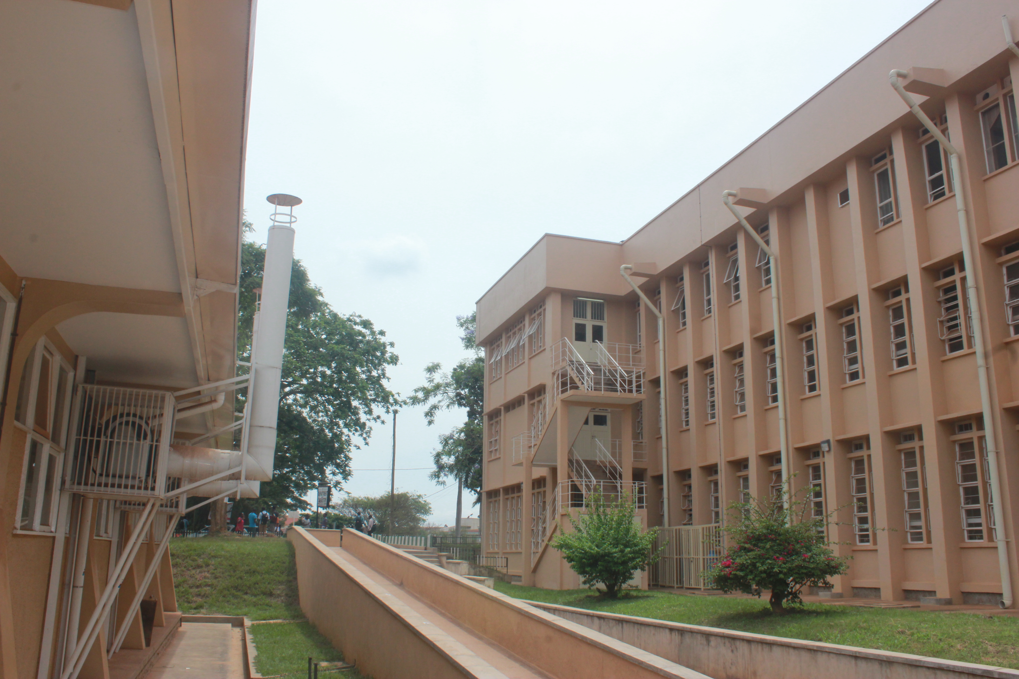 Makerere University, College of Natural sciences, Chemistry Department, Kampala Uganda